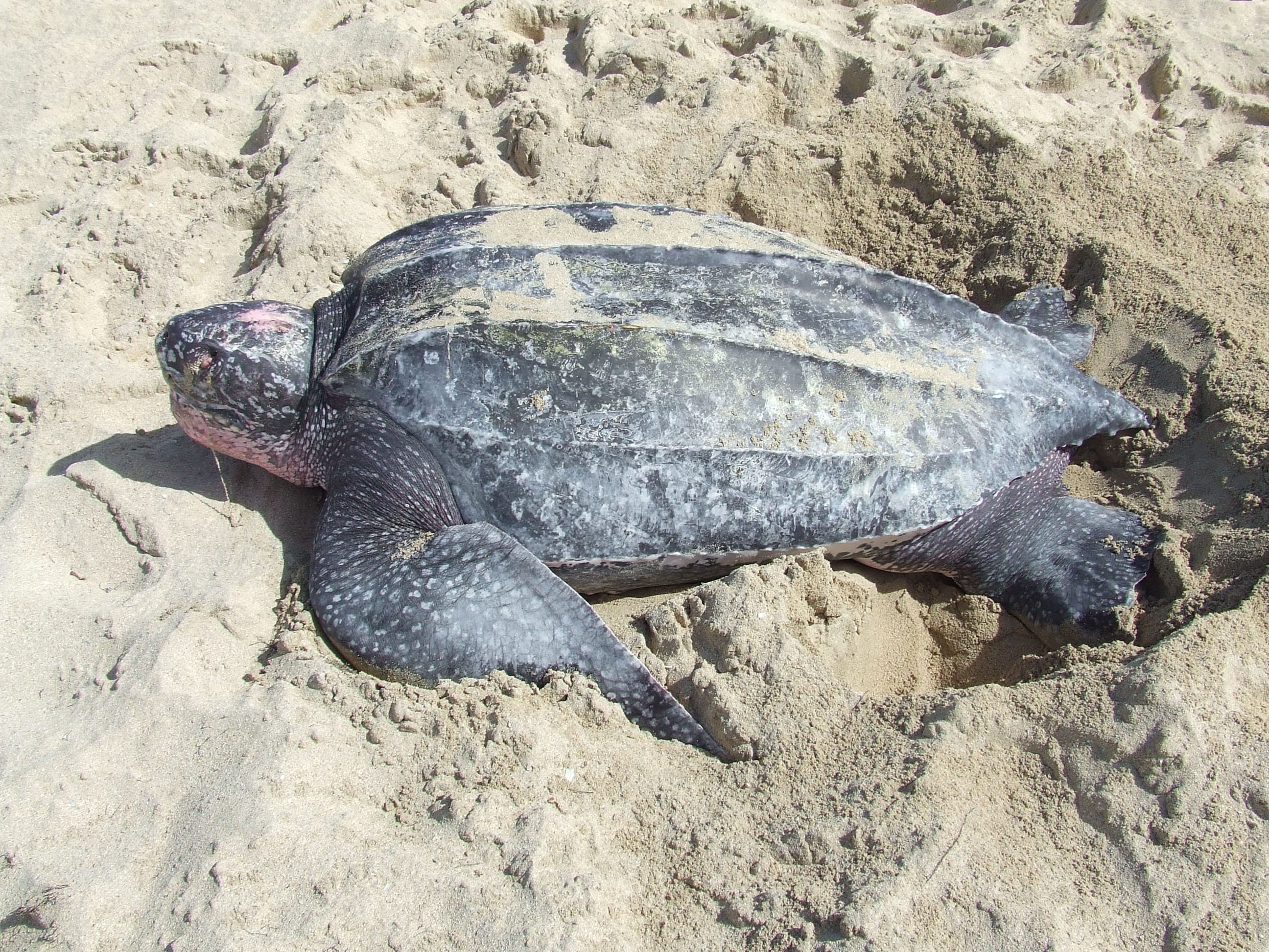 Scientific name: Dermochelys coriacea Common name